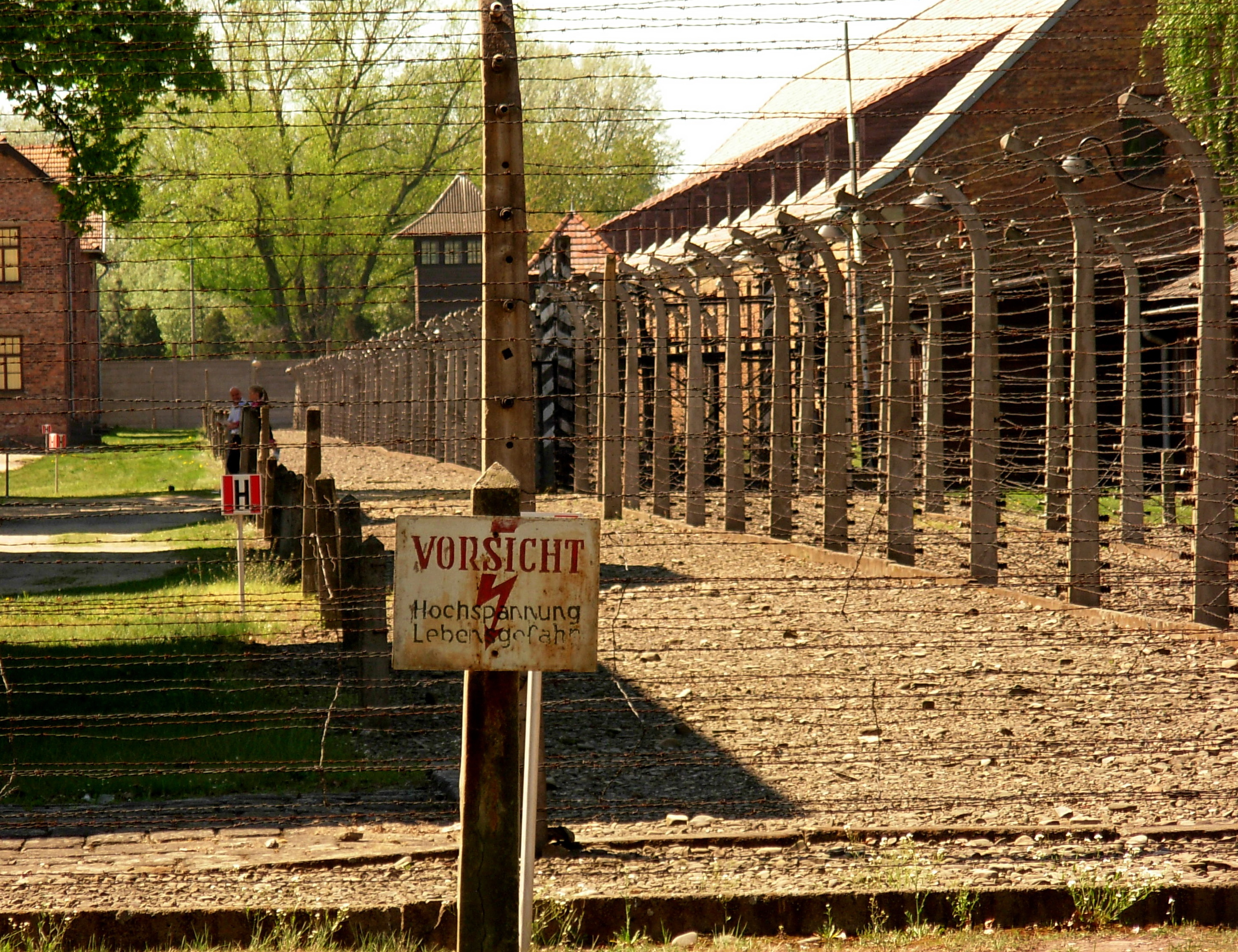 Auschwitz I concentration camp